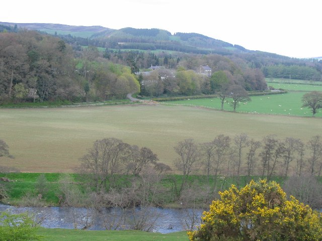 Carterhaugh "O I forbid you, maidens a', That wear gowd on your hair, To come or gae by Carterhaugh, For young Tam Lin is there." Famed in the Border ballad, Carterhaugh is a farm on the Buccleuch Estate. Seen across the Ettrick Water from NT433263. You can still visit Tam Lin's Well.